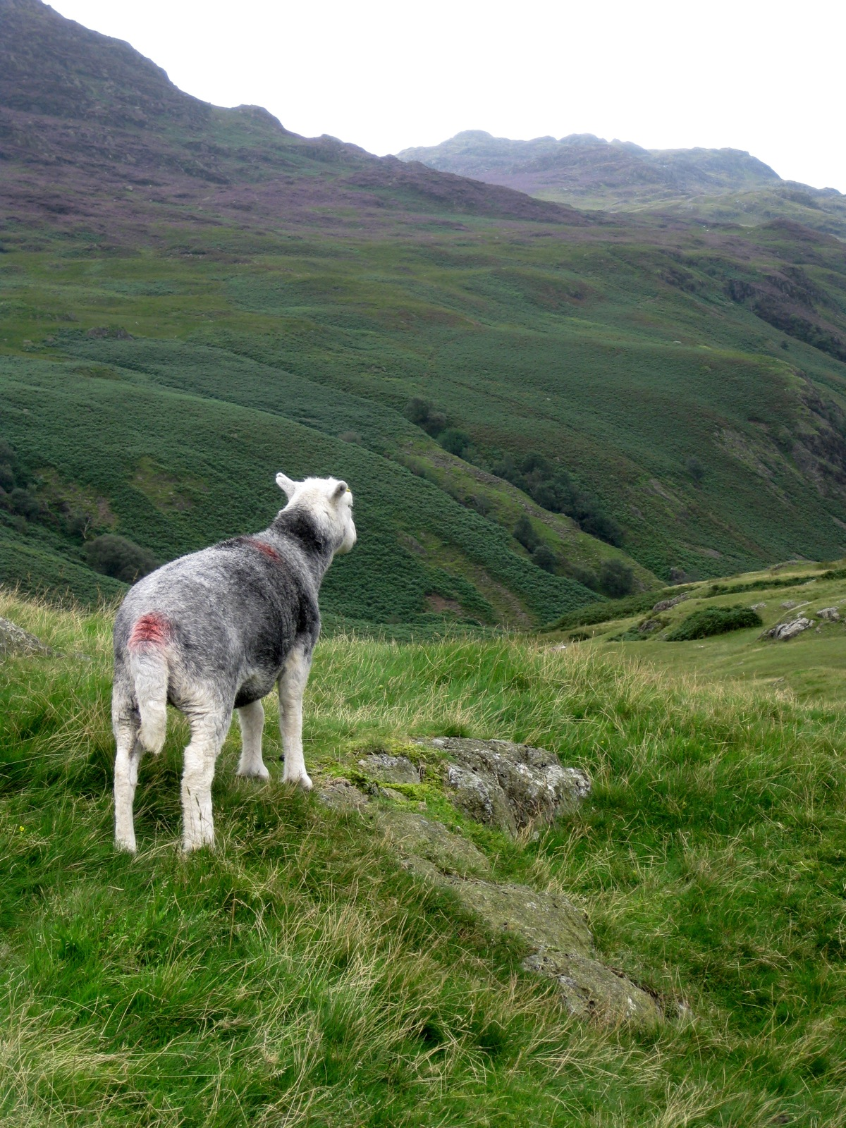 A Herdwick sheep surveys the Lake District.